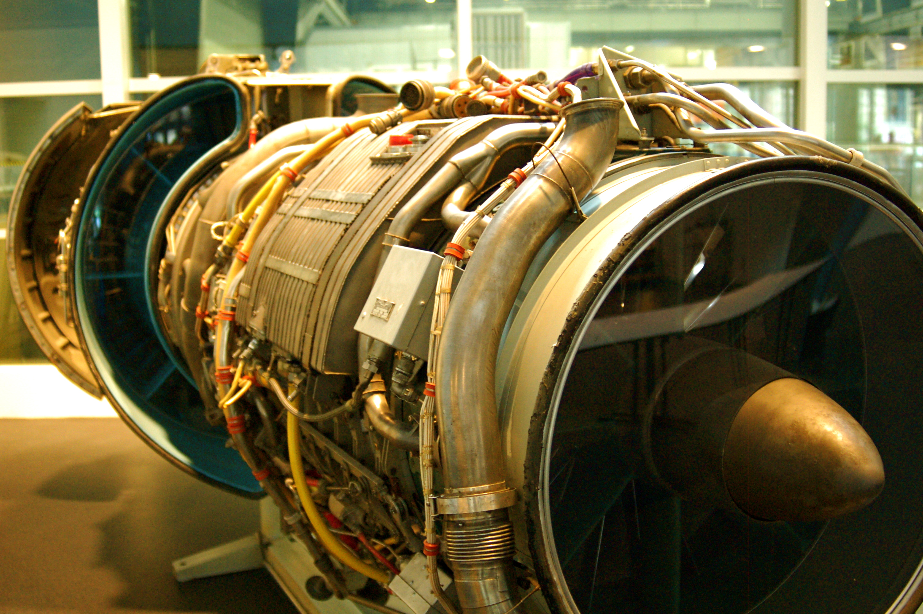 General Electric CJ-805, simplified civilian version of General Electric J79